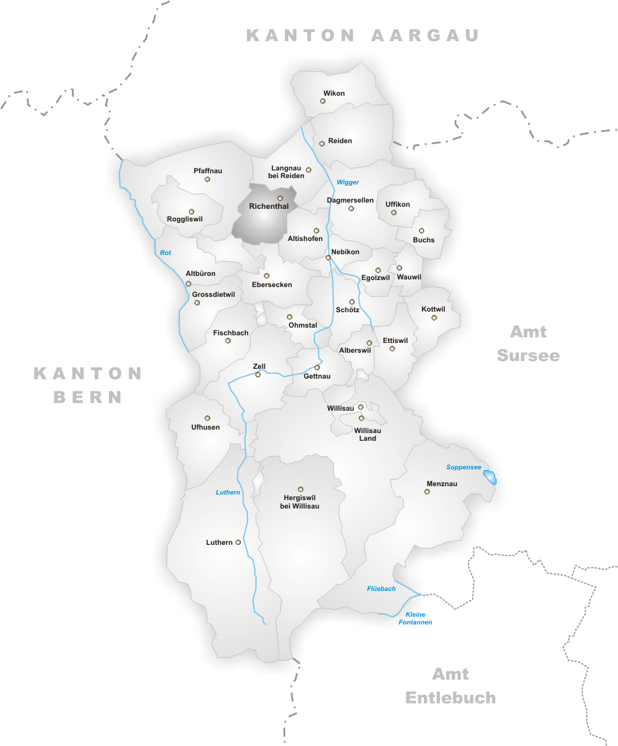 Municipality Richenthal